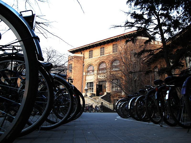 A library at the Tsinghua University campus in Beijing, China.